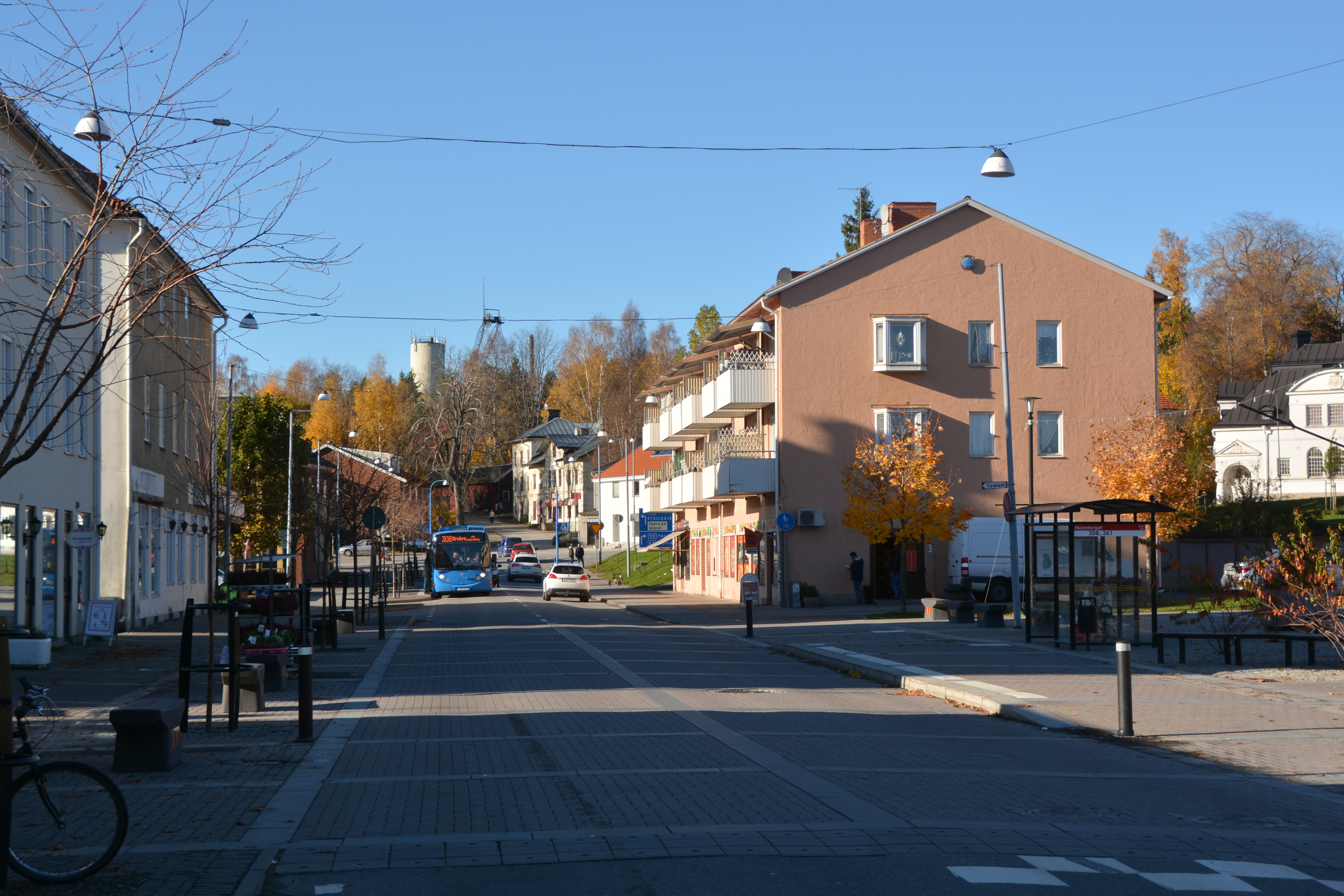 Kopparbergs centrum vid Malmtorget